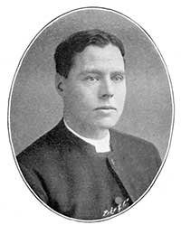 Archive image of Canon Percy Holbrook (1859-1946) vicar of the Church of St Mark, Old Leeds Road, Huddersfield, West Yorkshire, England 1888-1891.